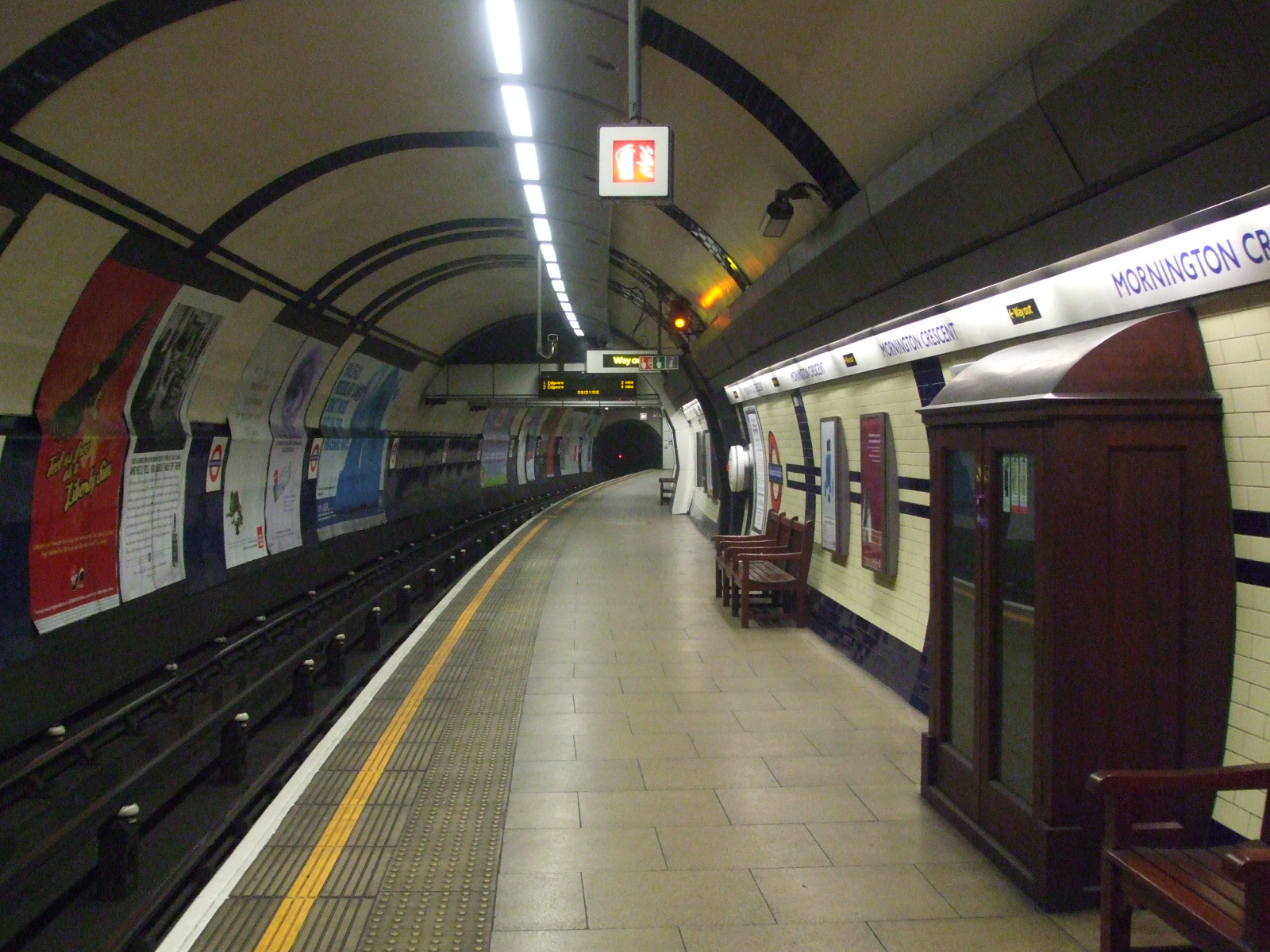 Mornington Crescent tube station northbound platform looking north